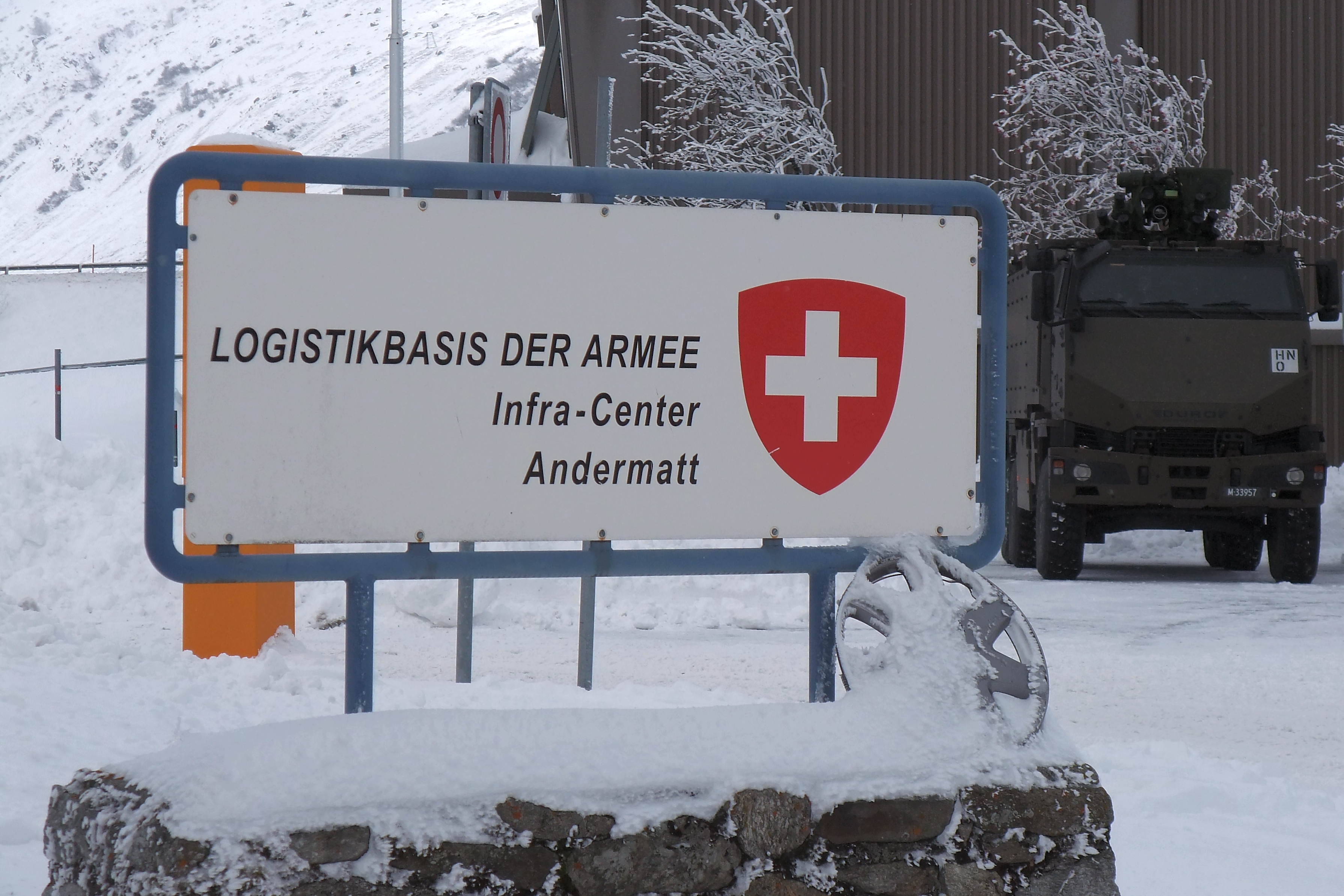 Andermatt is an important bastion of the Swiss Army. Despite of new austerity plans announced by Federal Councillor Ueli Maurer, it will remain so. New technology must be hidden, and the mountains on the Gotthard are well-suited for that. It is rumored about investments of CHF 150 million in this area. This is something like a 'foundation' in that case. Switzerland, Nov 26, 2013.